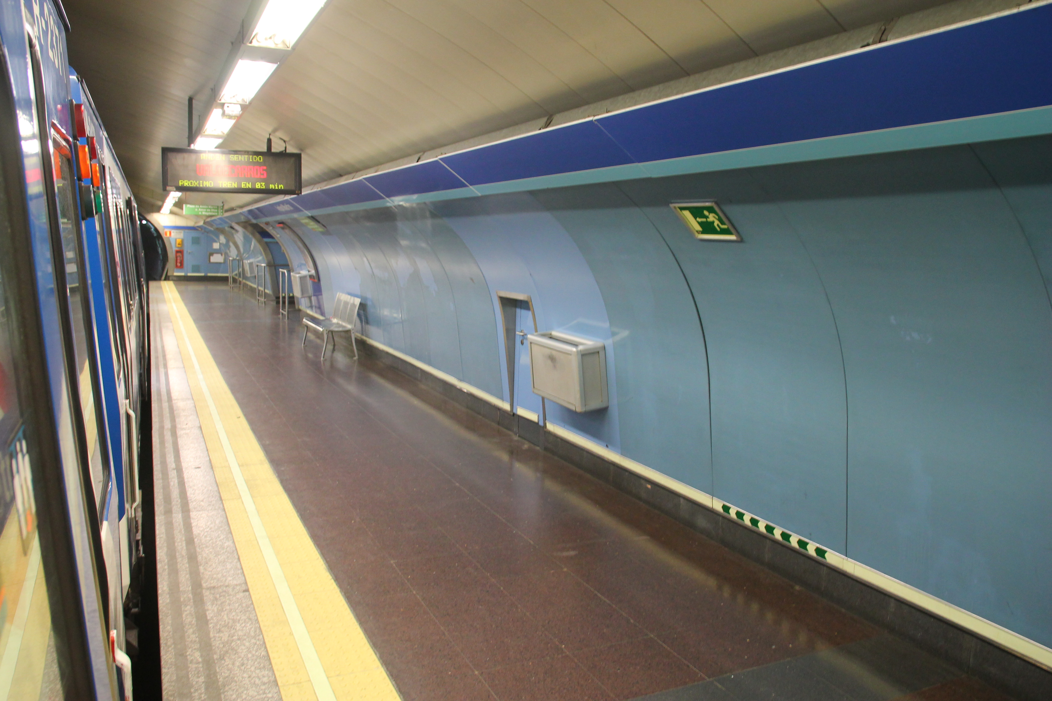 Estación de Antón Martín